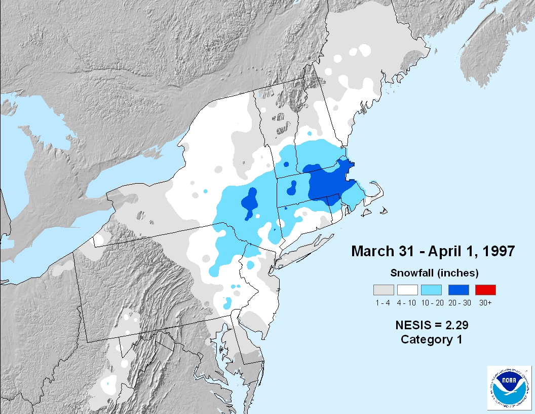 April Fool's Day Blizzard snowfall accumulation map.